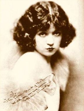 Publicity photo of Marie Prevost from The Blue Book of the Screen by Ruth Wing, editor